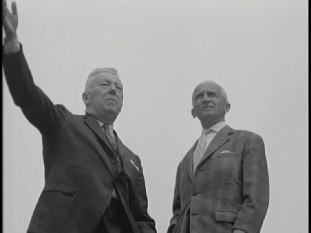 General Bruce C. Clark and Monteuffel discuss their participation in the Battle of St. Vith, part of the Ardennes Offensive in 1944. The discussion was part of a U.S. Army documentary titled "The Battle at St. Vith" and was made in 1965.